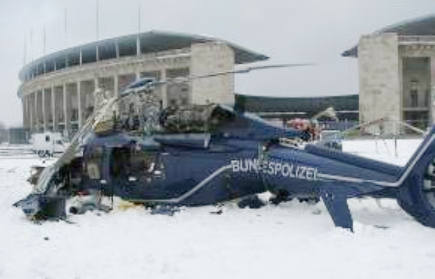 Photograph of the damaged EC 155 B of the german Federal Police after the 2013 Berlin helicopter crash.